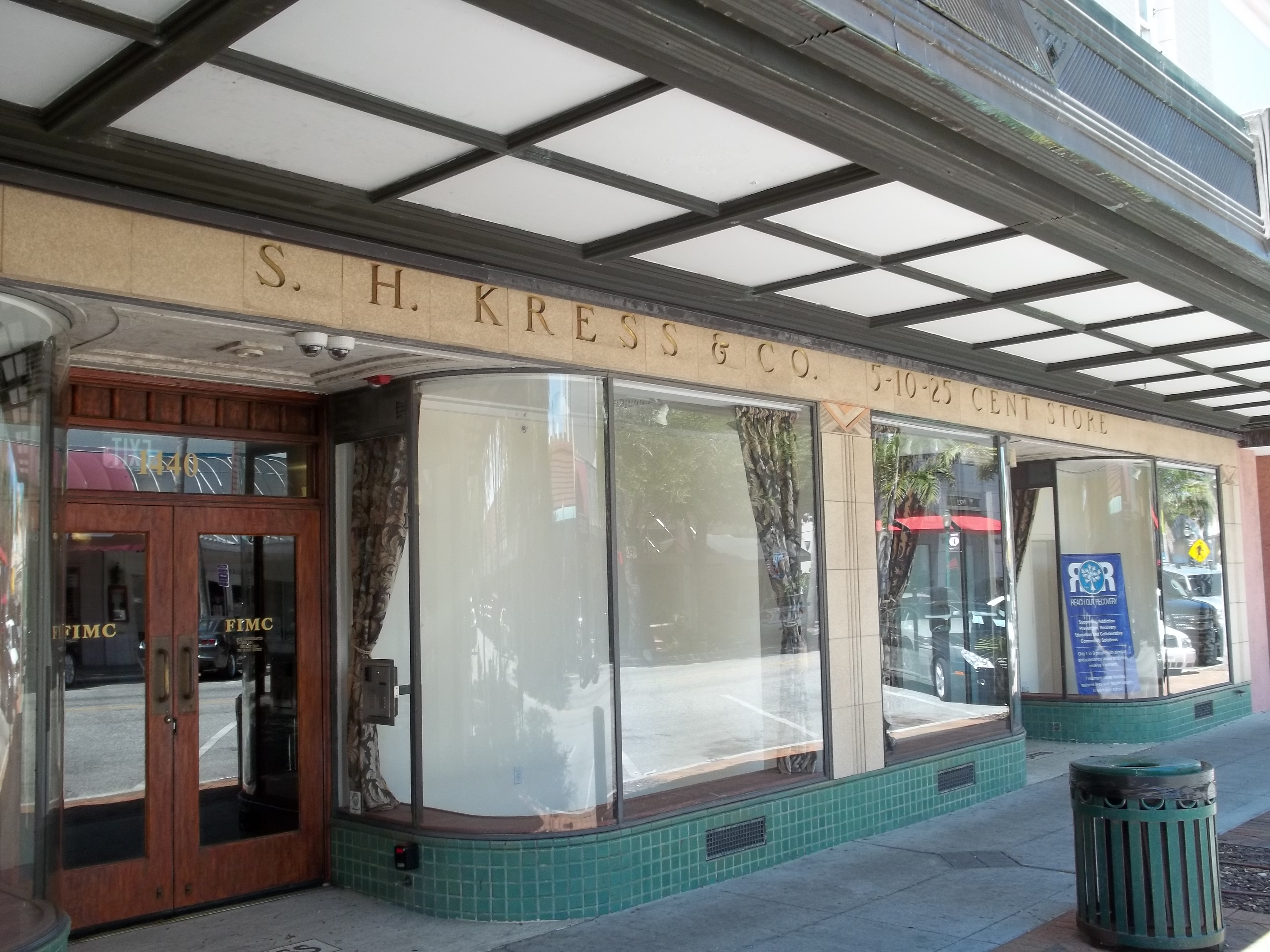 Sarasota, Florida: Downtown Sarasota Historic District: S. H. Kress and Co. Building